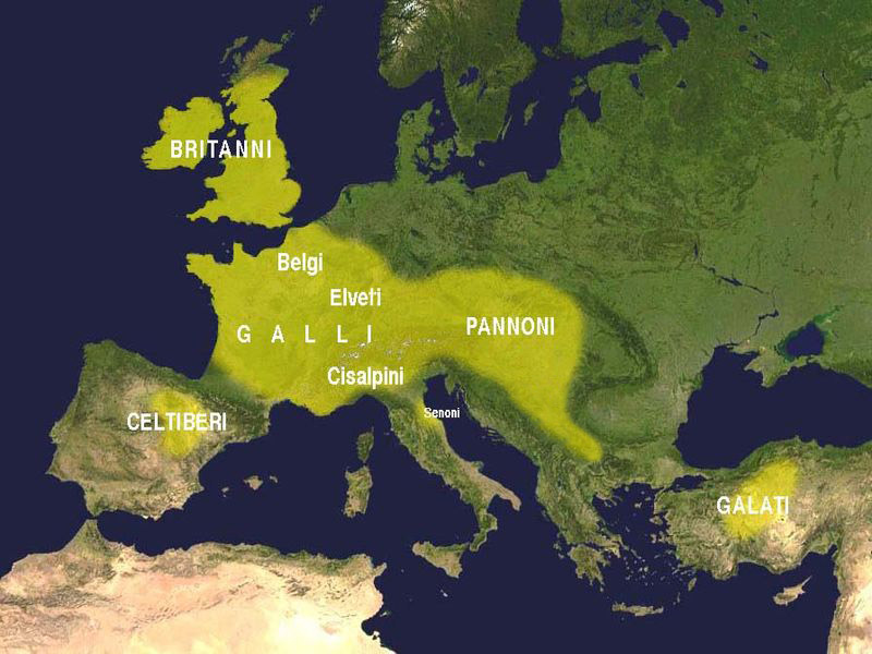 Celts spread in III century BC, rather loosely based on Francisco Villar's Los Indoeuropeos y los origenes de Europa, Italian version, p. 446